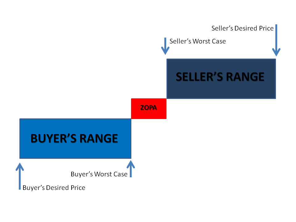 The zone between two parties when there is no overlap of interests.